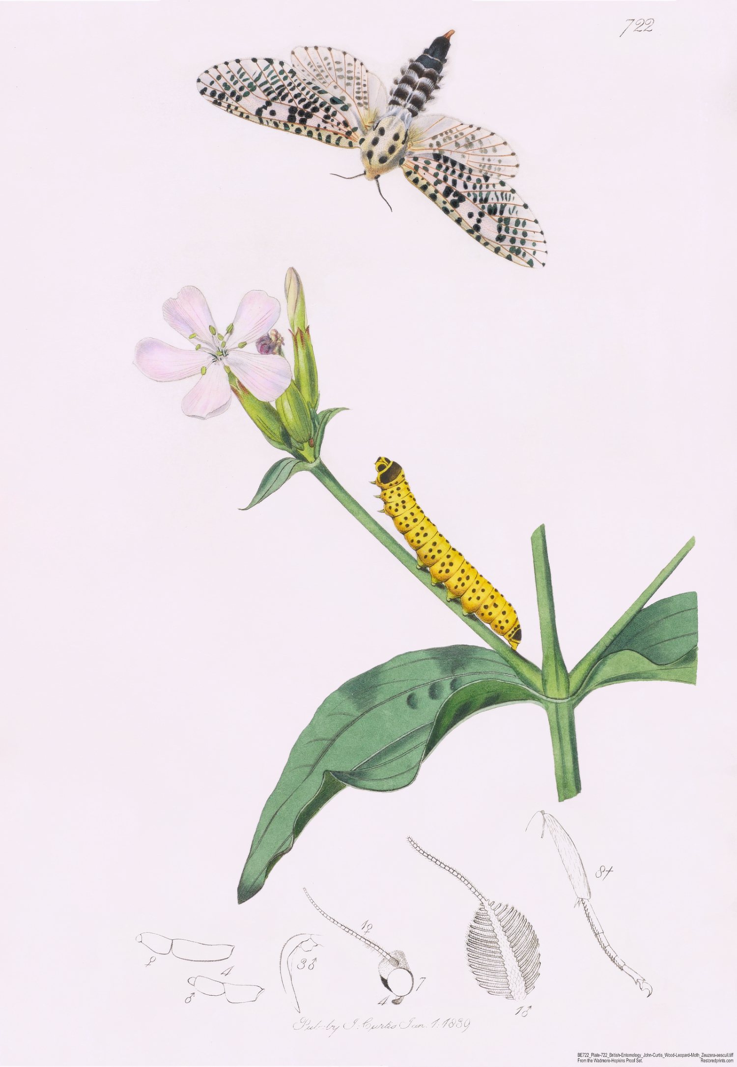 One of 770 proof impressions from John Curtis's masterwork: British Entomology. published, London. 192 parts from 1st January 1824 to 1st December 1839.